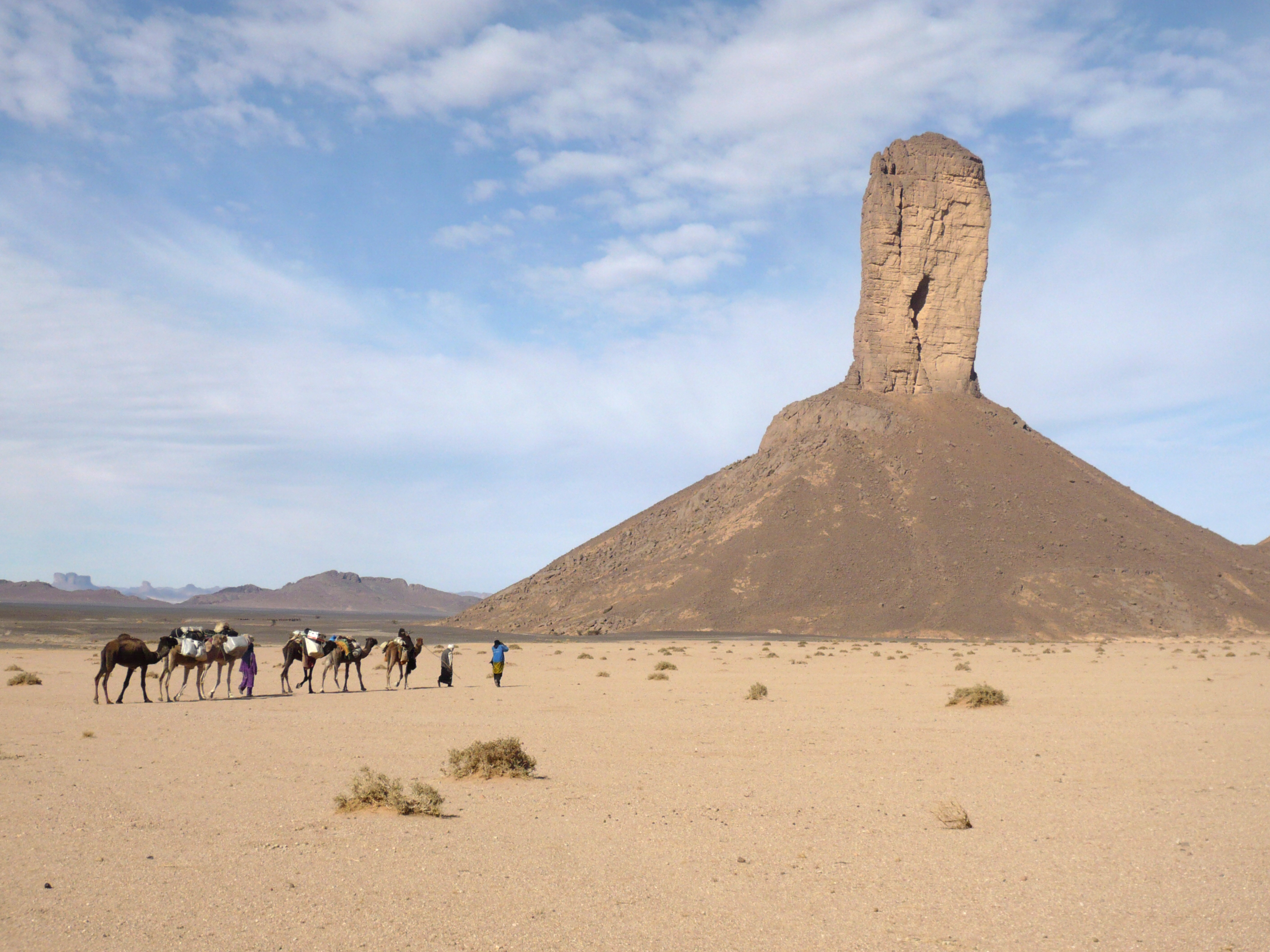 Rocky mountains naturally sculpted by the wind